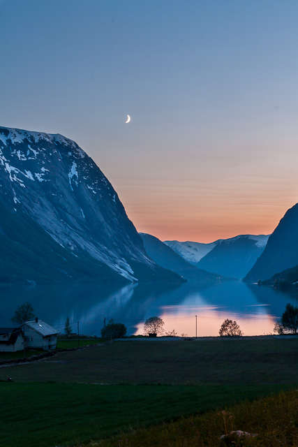 The sun has just set over the mountains of Jølster, Sogn og Fjordane in Norway. Looking at Kjøsnesfjorden.